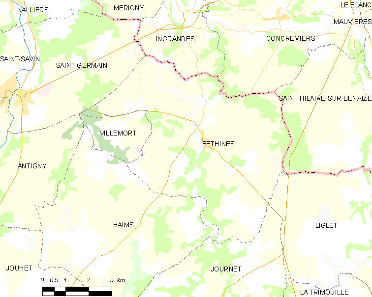 Map of French municipality Béthines